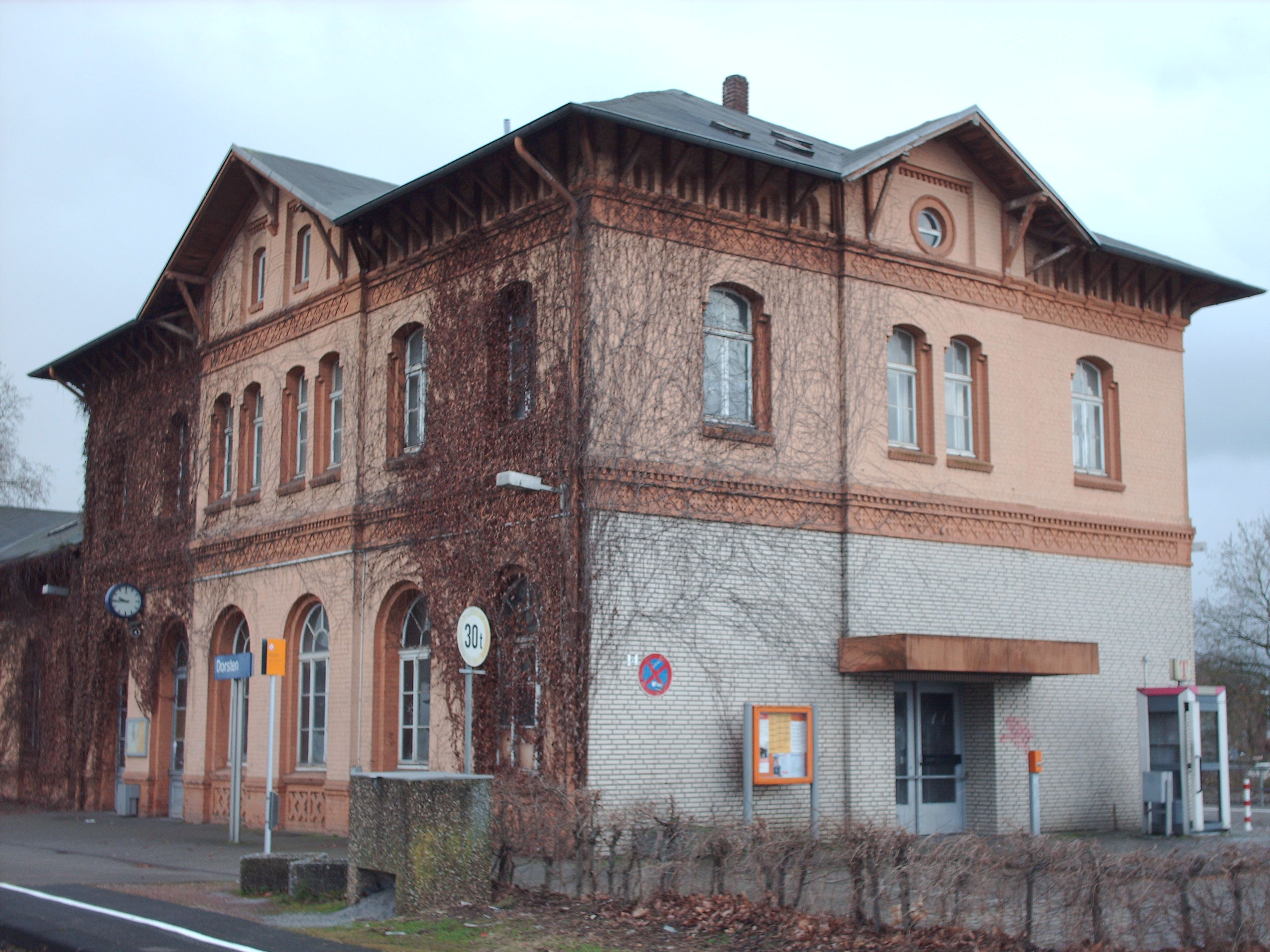 Dorsten station, Dorsten, Germany check usage